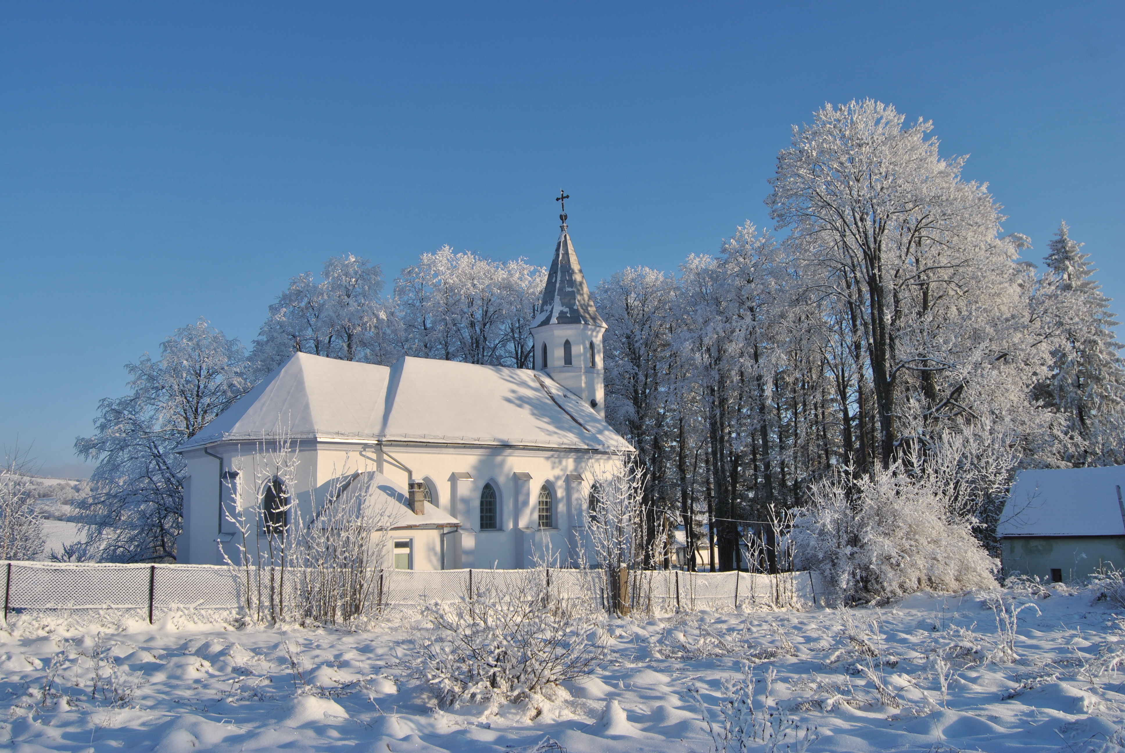 View from Brebu Nou in the winter of 2010.